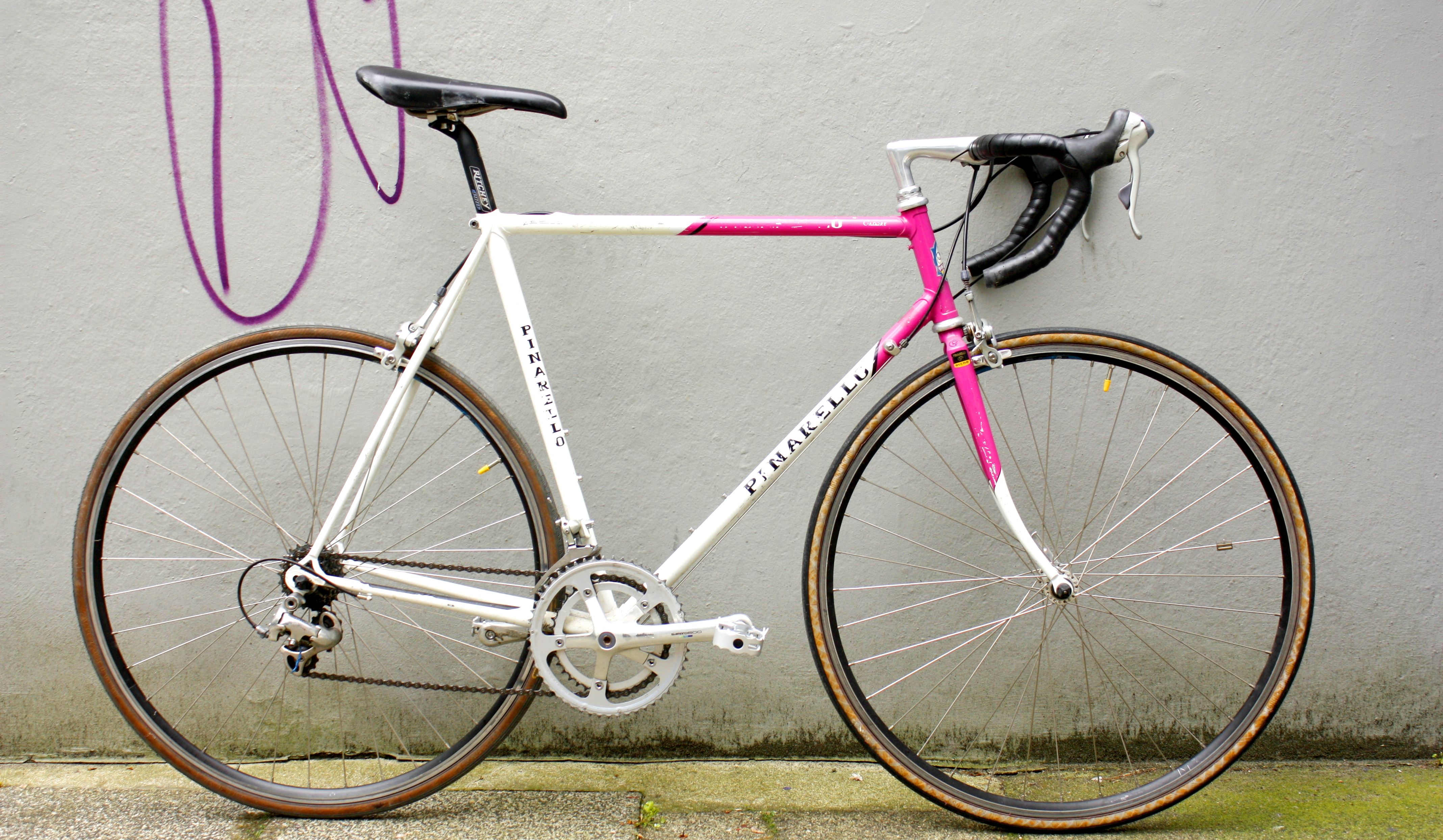 Pinarello Roadbike from the 90th